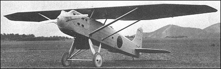 Mitsubishi 1MF2 Hayabusa-type Fighter